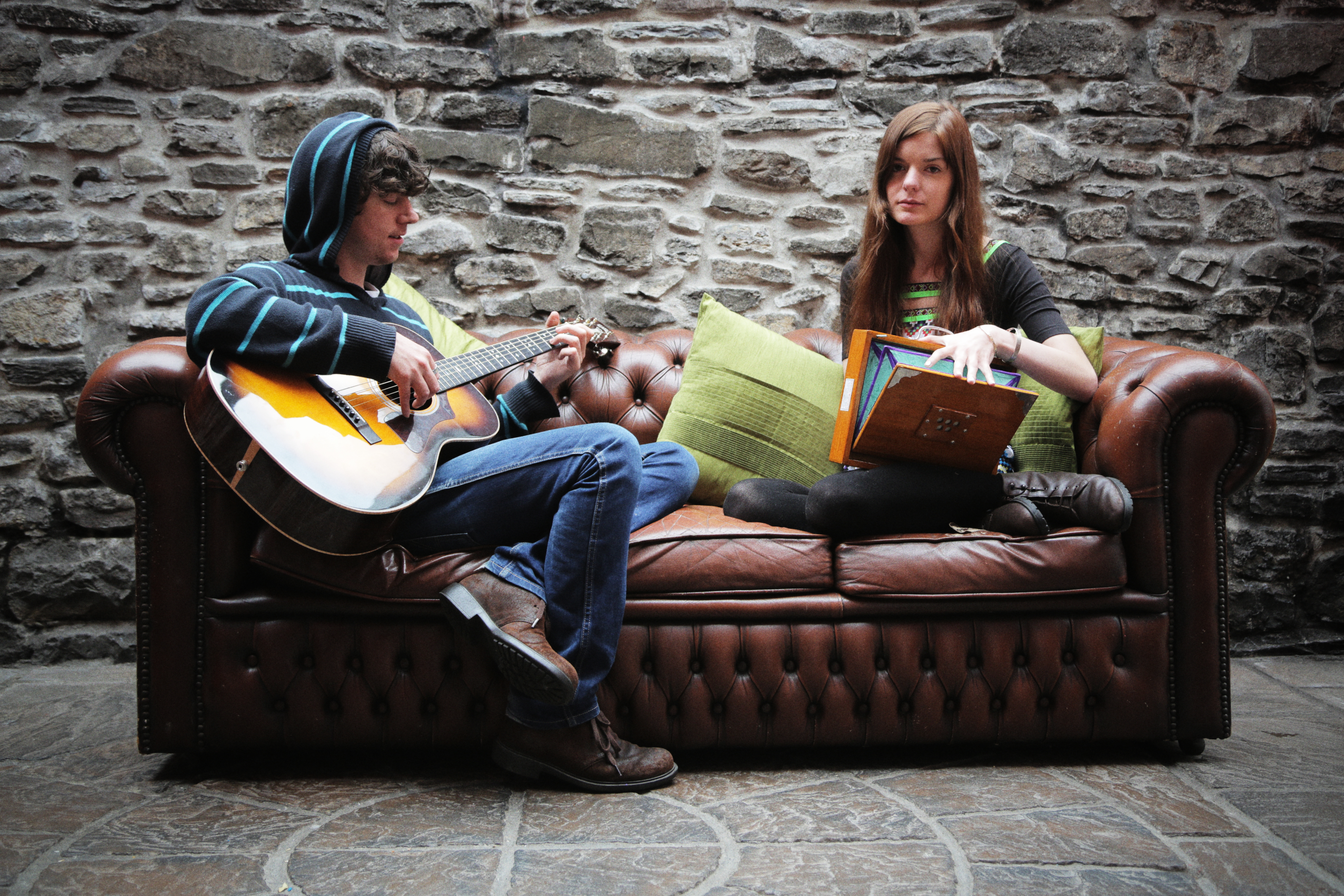 Trwbador. A Welsh band.